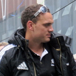 Israel Dagg at the 2011 Rugby World Cup parade in Wellington, New Zealand